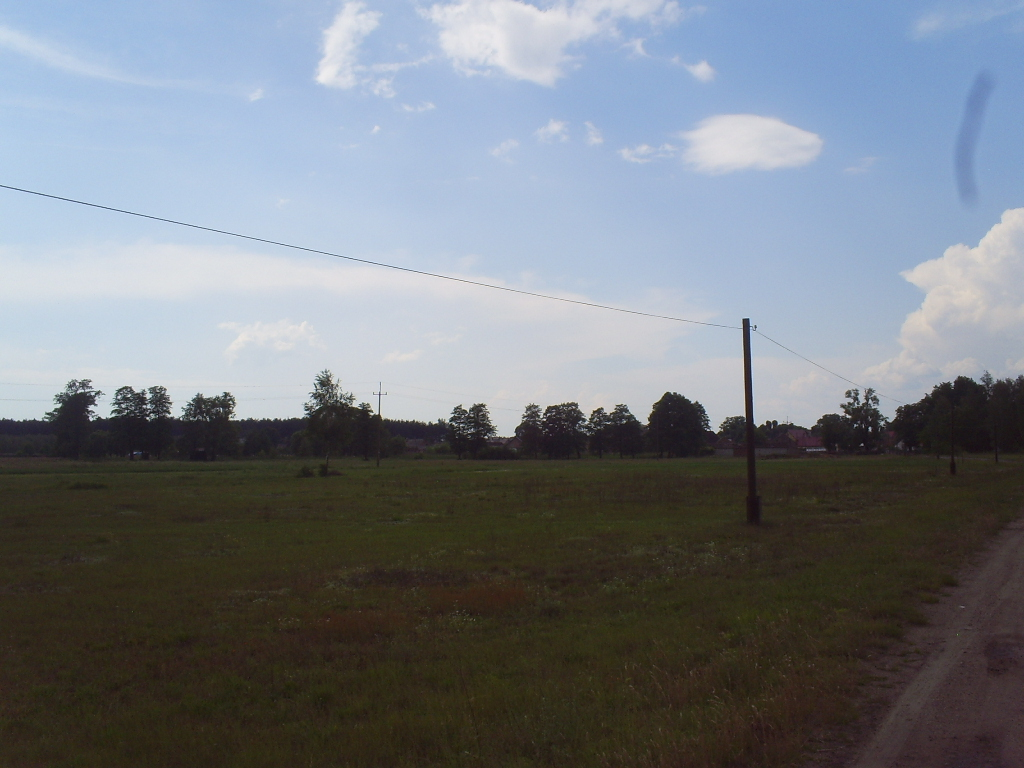 Chrośnica looked of page Stefanowice